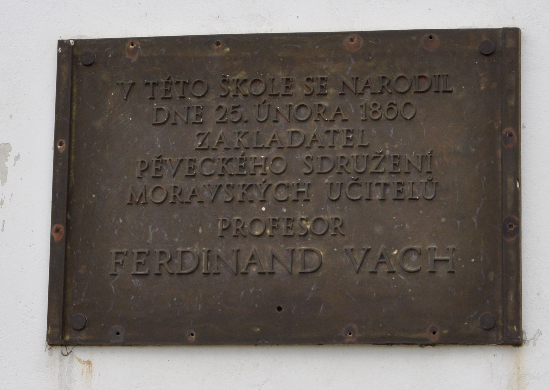 Jažlovice, Plaque of Ferdinand Vach (componist) on the building of the former school